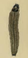 Stainton’s Natural History of the Tineina (1855–1873): Caryocolum marmorea